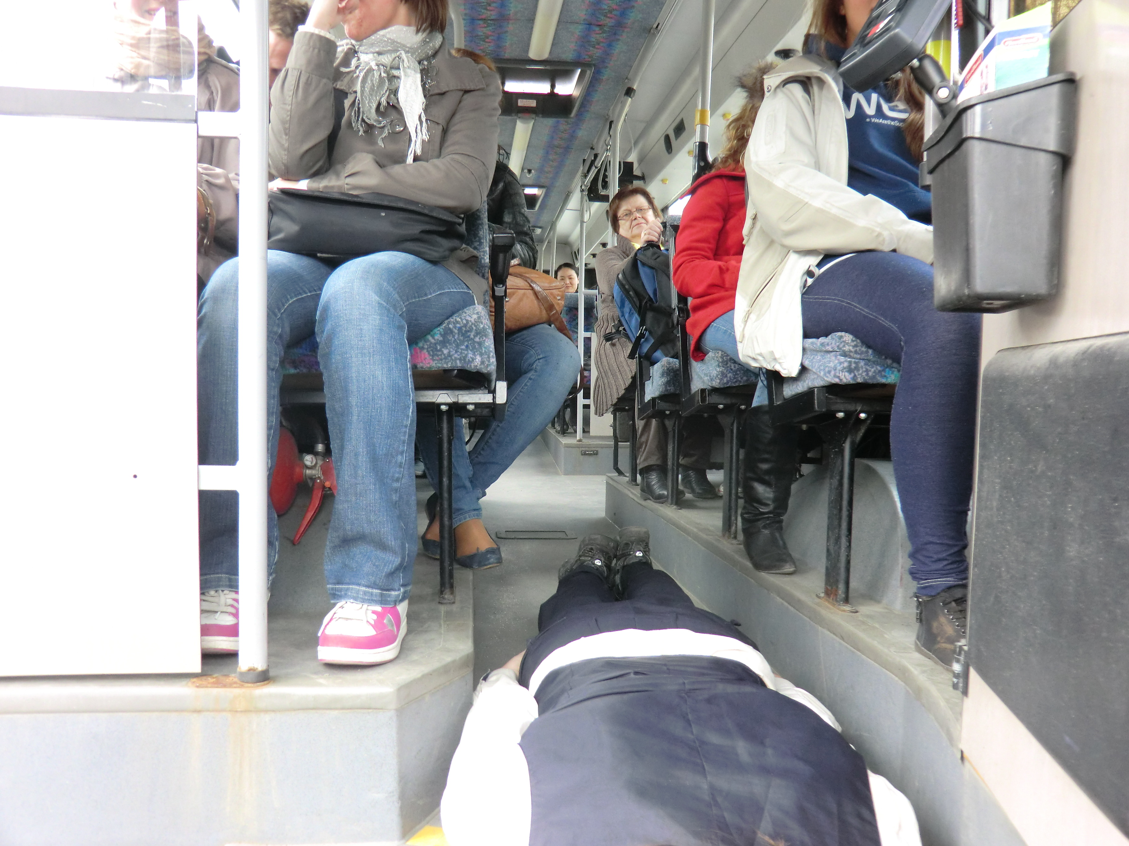 Bus-driver planking in bus in tromsø.